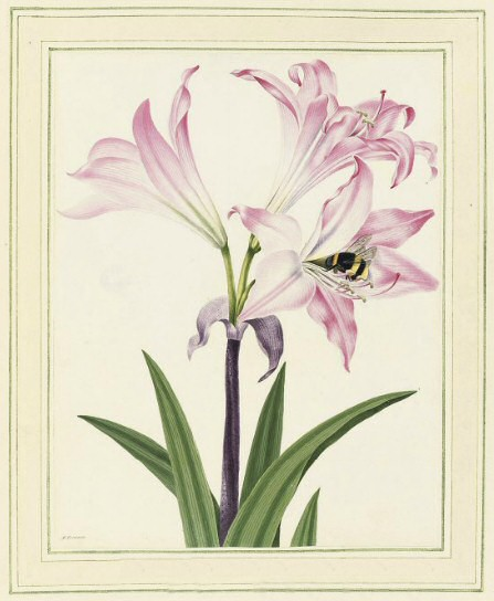 Flower illustration by Peter Brown in botanical albums from Kimbolton Castle, dated 1761-1782. Flowers are from regions including Cape of Good Hope, Carolina and Peru.